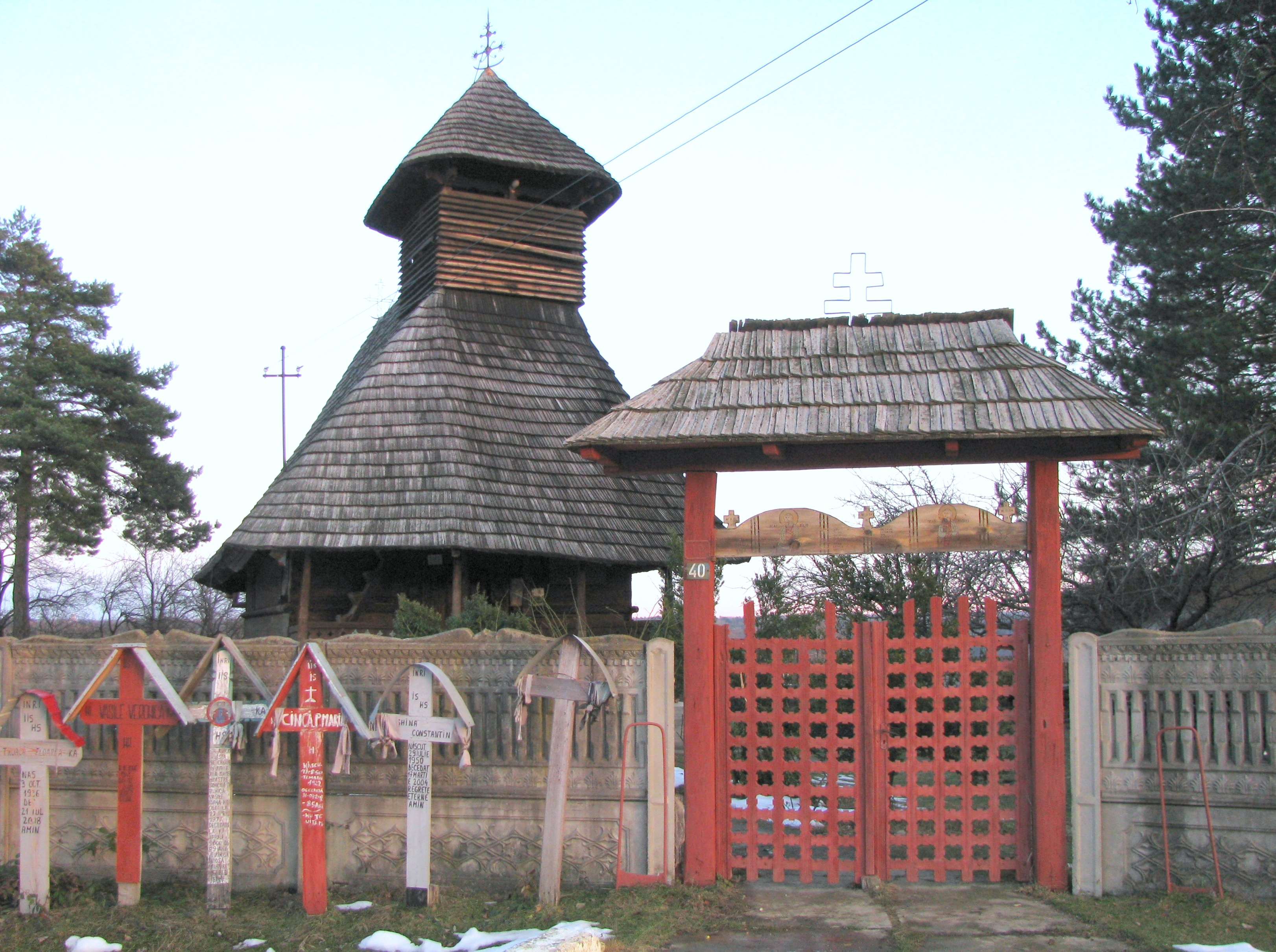 Wooden church "Intrarea în Biserică" from Valea Cucii village, Cuca commune, Argeș county, Romania